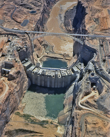 View of Glen Canyon Dam under construction, Arizona, 1962